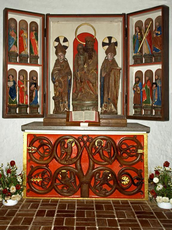 Morsum (Sylt), Slesvic-Holstein (Germany): church altar, photo 2008